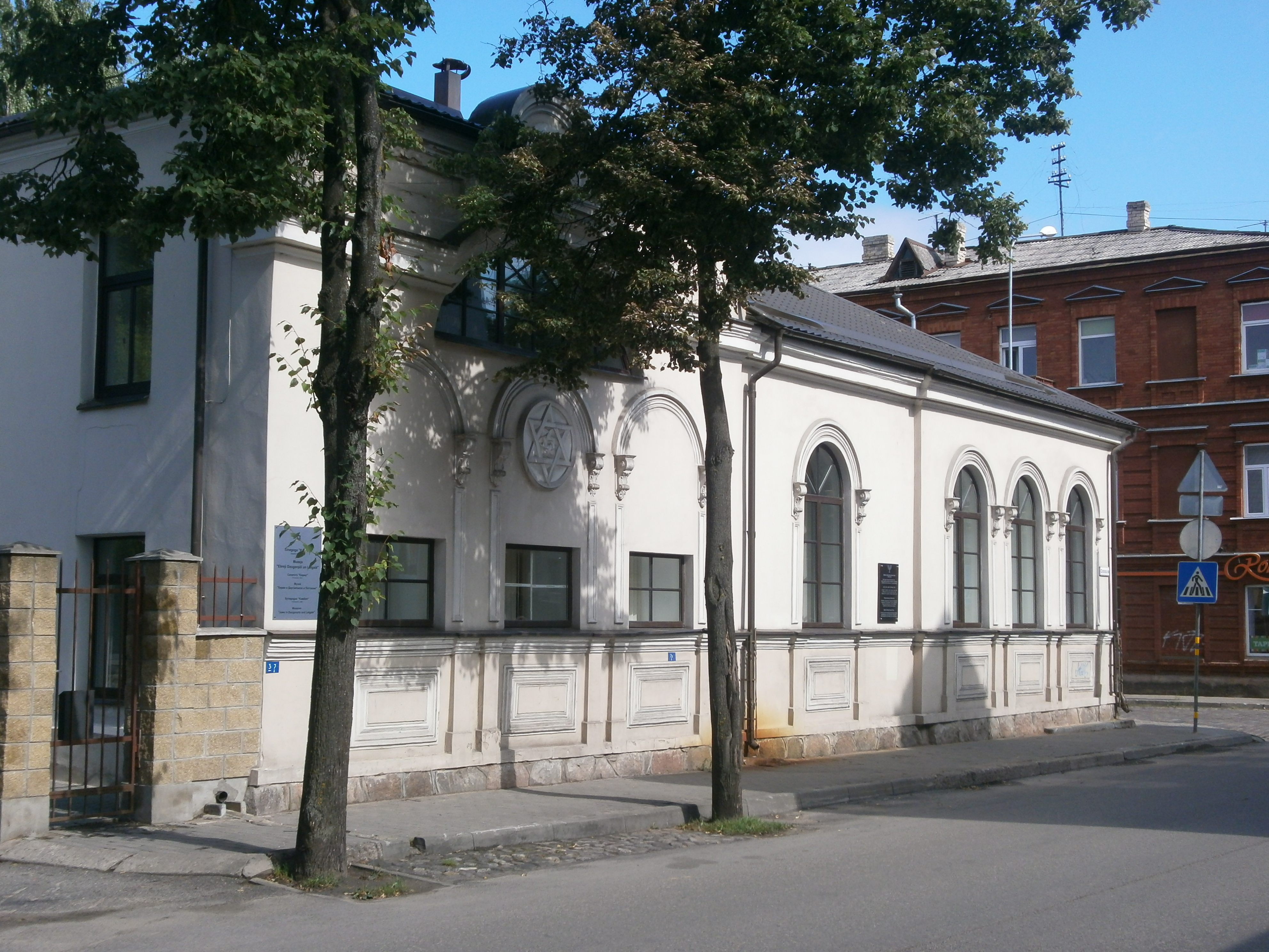 Daugavpils synagogue "Kadish"